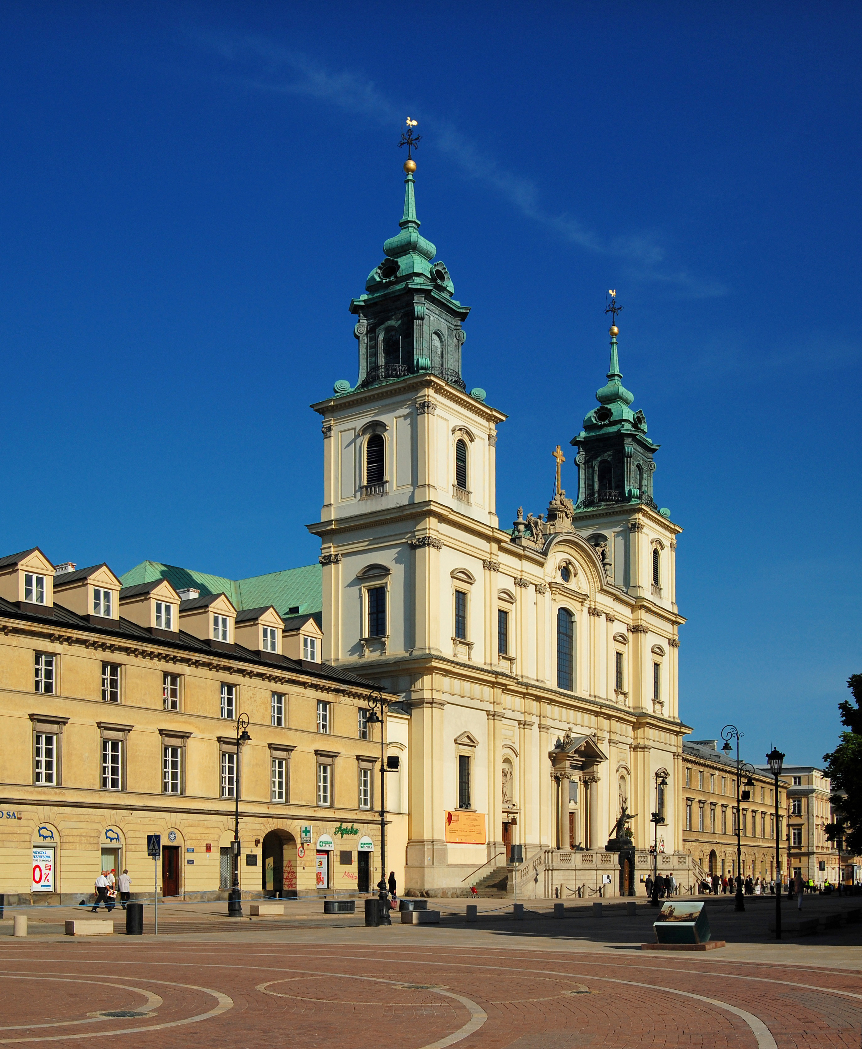 Church of Holy Cross, Warsaw, Poland.